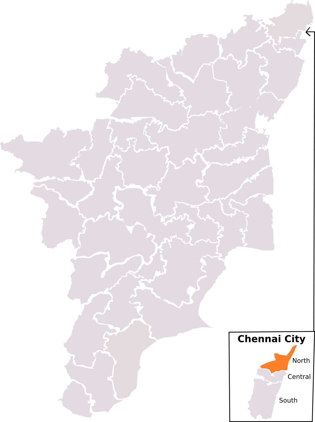 Lok Sabha Election map labeling each constituency for individual pages for Tamil Nadu after delimitation starting 2009 election. Map is based on ECI drawn map from